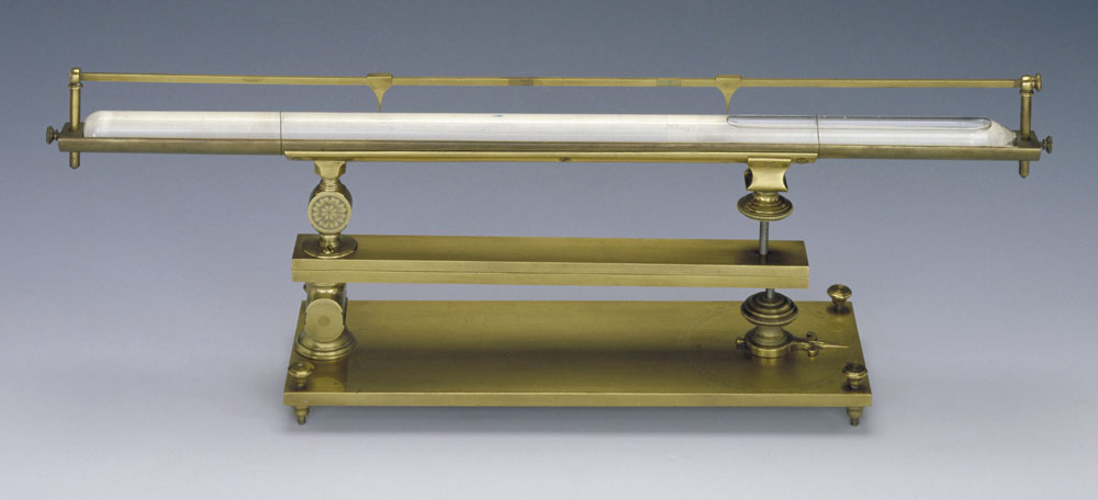 AuthorUnknownDescription